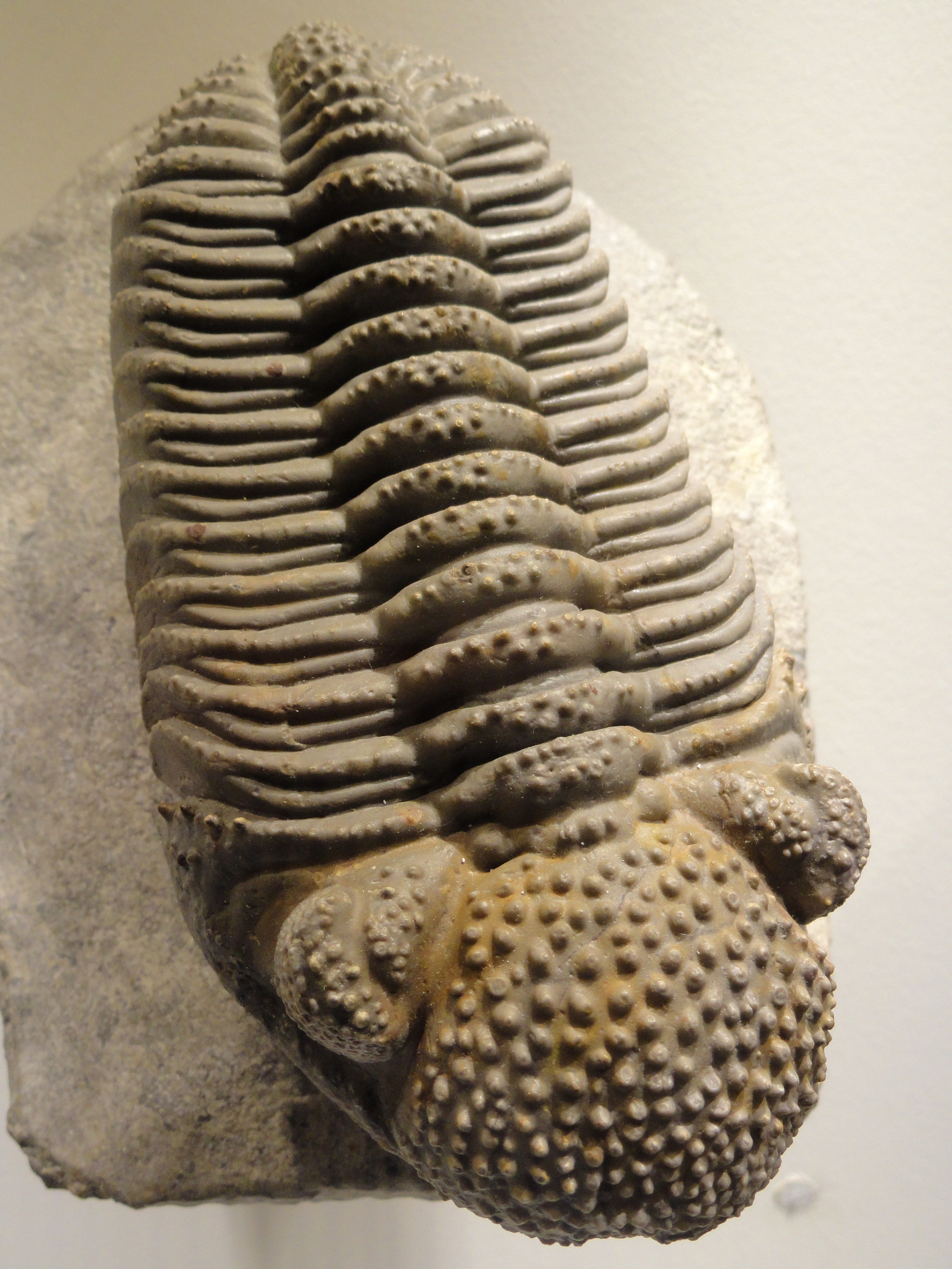 Drotops megalomanicus megalomanicus, Middle Devonian, Bou DOb Formation, E face of Jbel Issoumour & Jbel Mrakib, MaOder Region, Morocco - Houston Museum of Natural Science - DSC01625.JPG